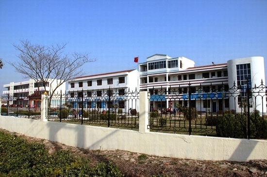 Escuela Primaria Central de Nanchen